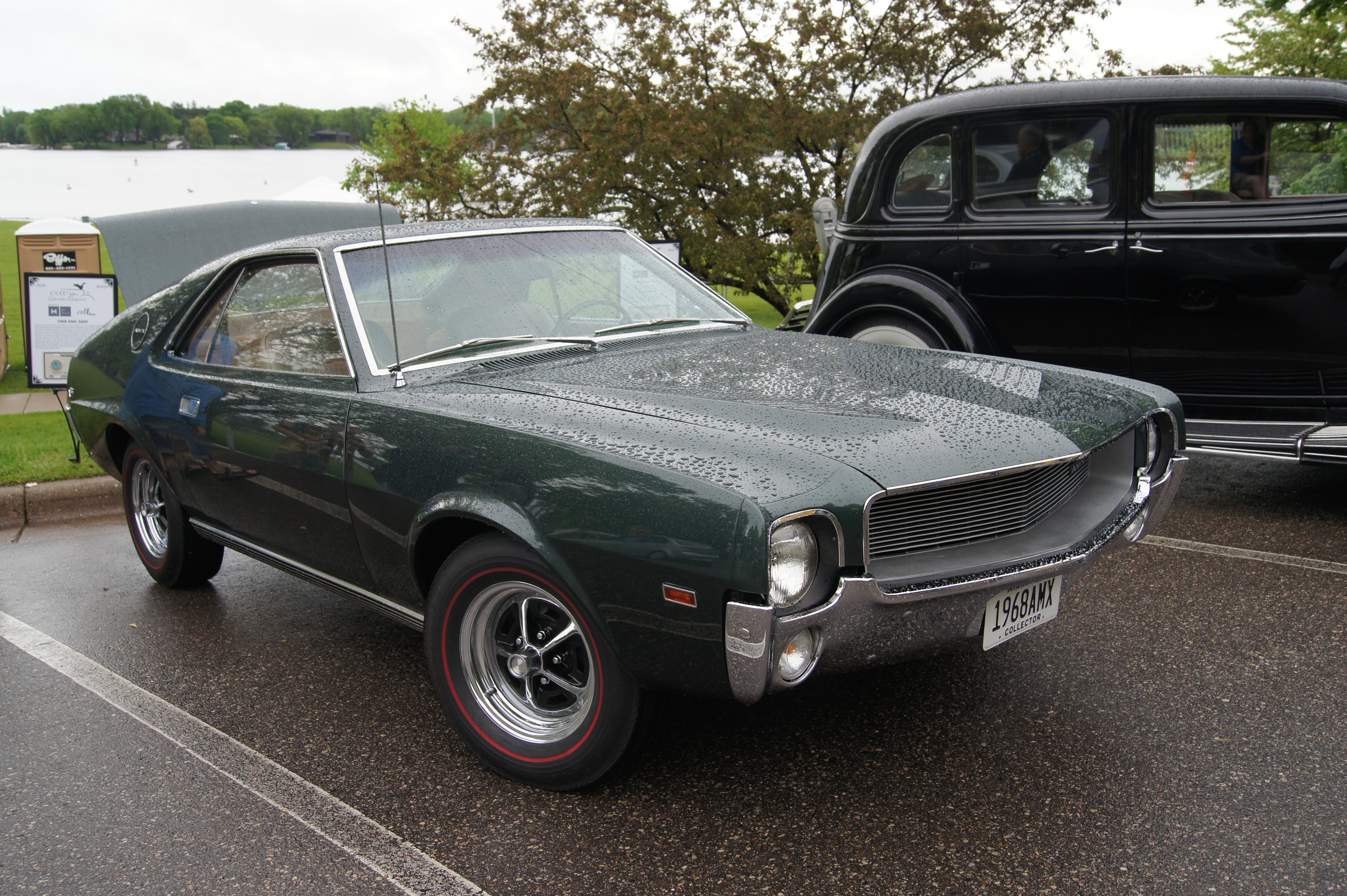 2nd Annual 10,000 Lakes Concours d'Elegance to Benefit Courage Center Foundation June 1, 2014 Excelsior Commons Excelsior Minnesota Thousands of car pictures at the link below